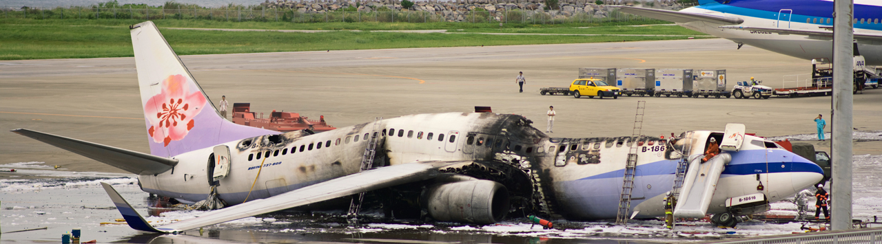 Burned remains of China Airlines 737-800 registration number B-18616. Airliner caught fire and exploded after landing at Naha Airport on August 20, 2007. None of the passengers or crewmembers were injured, although one ground crew was injured.